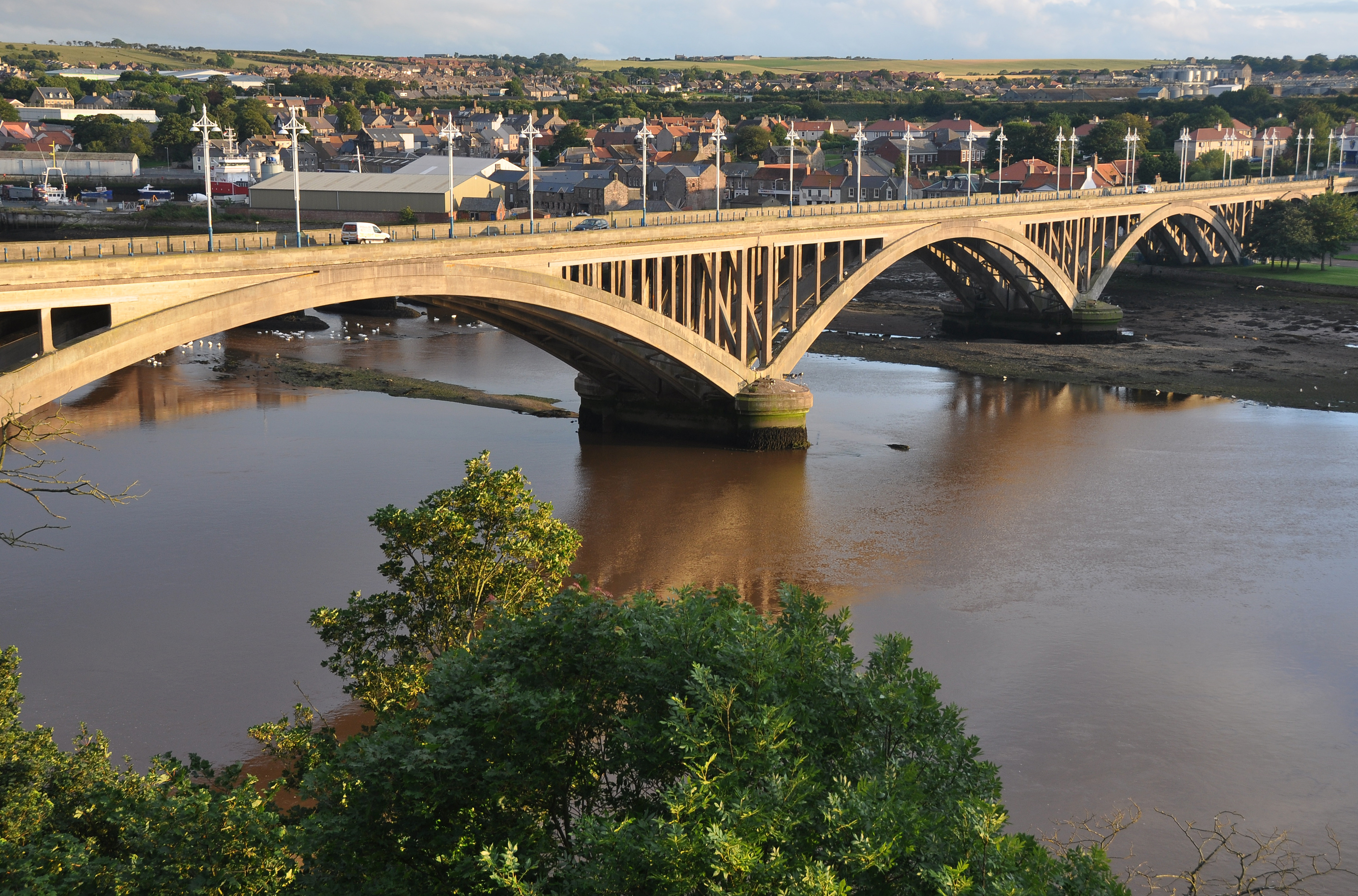 The Royal Tweed Bridge, which takes the A1167 across the River Tweed in Berwick-upon-Tweed, Northumberland.